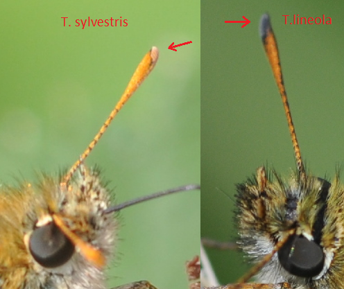 Antennas of male Small Skipper Thymelicus sylvestris and Essex Skipper Thymelicus lineola in comparison. Note the different colour on anterior side of the apex.